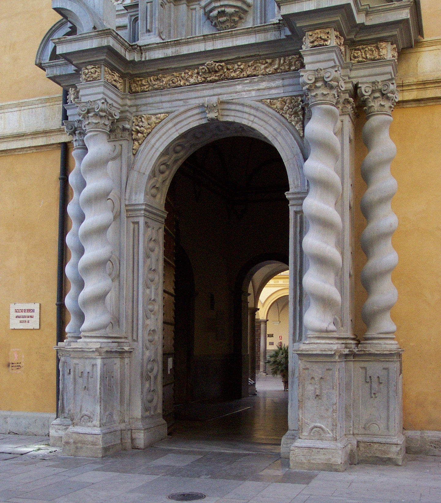 Law School, Granada, Andalucia, Spain.